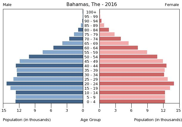 The population pyramid of the Bahamas illustrates the age and sex structure of population and may provide insights about political and social stability, as well as economic development. The population is distributed along the horizontal axis, with males shown on the left and females on the right. The male and female populations are broken down into 5-year age groups represented as horizontal bars along the vertical axis, with the youngest age groups at the bottom and the oldest at the top. The shape of the population pyramid gradually evolves over time based on fertility, mortality, and international migration trends.